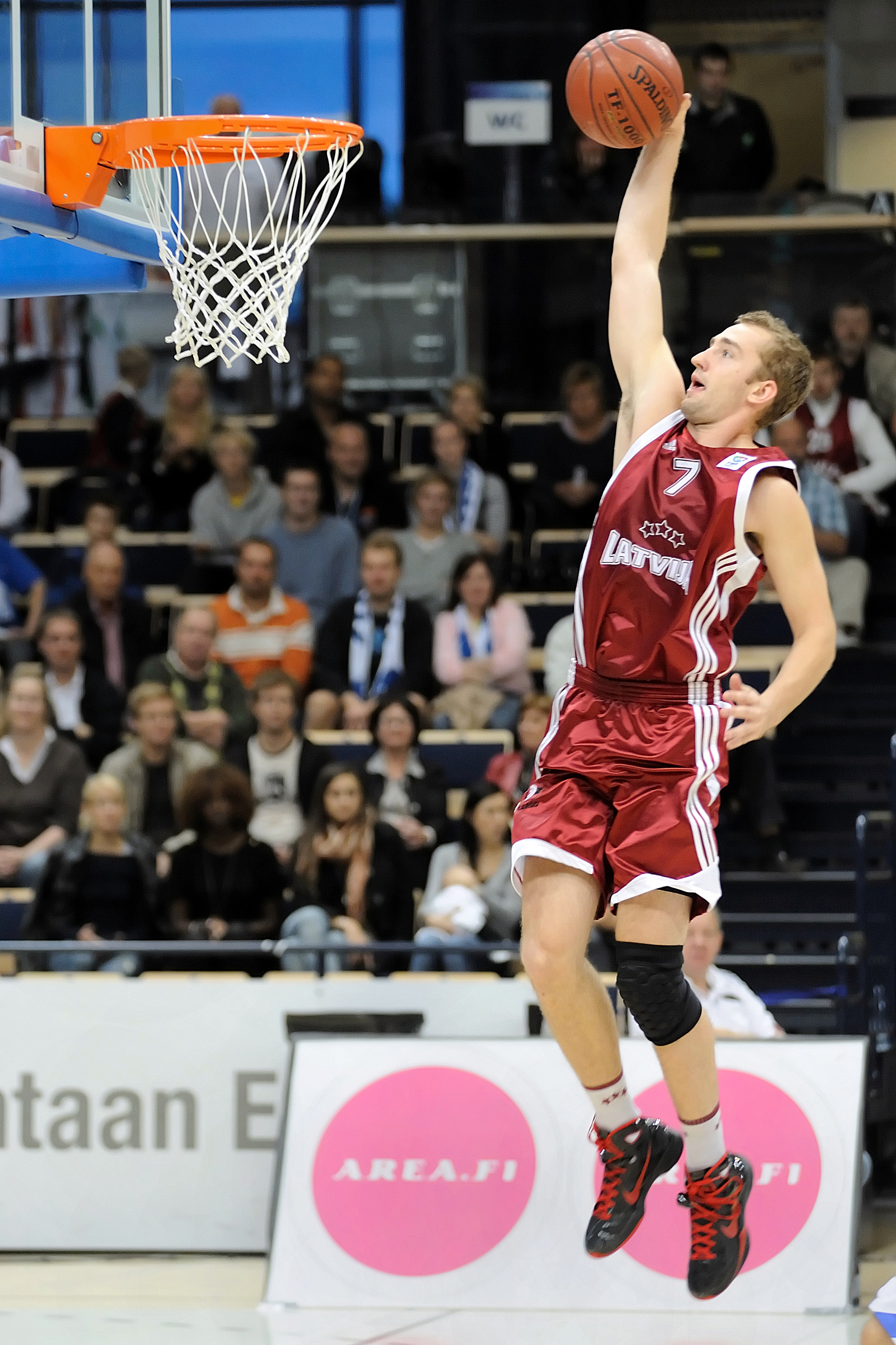 Latvian basketball player Rihards Kuksiks playing against Finland at Energia Areena in Vantaa, Finland.